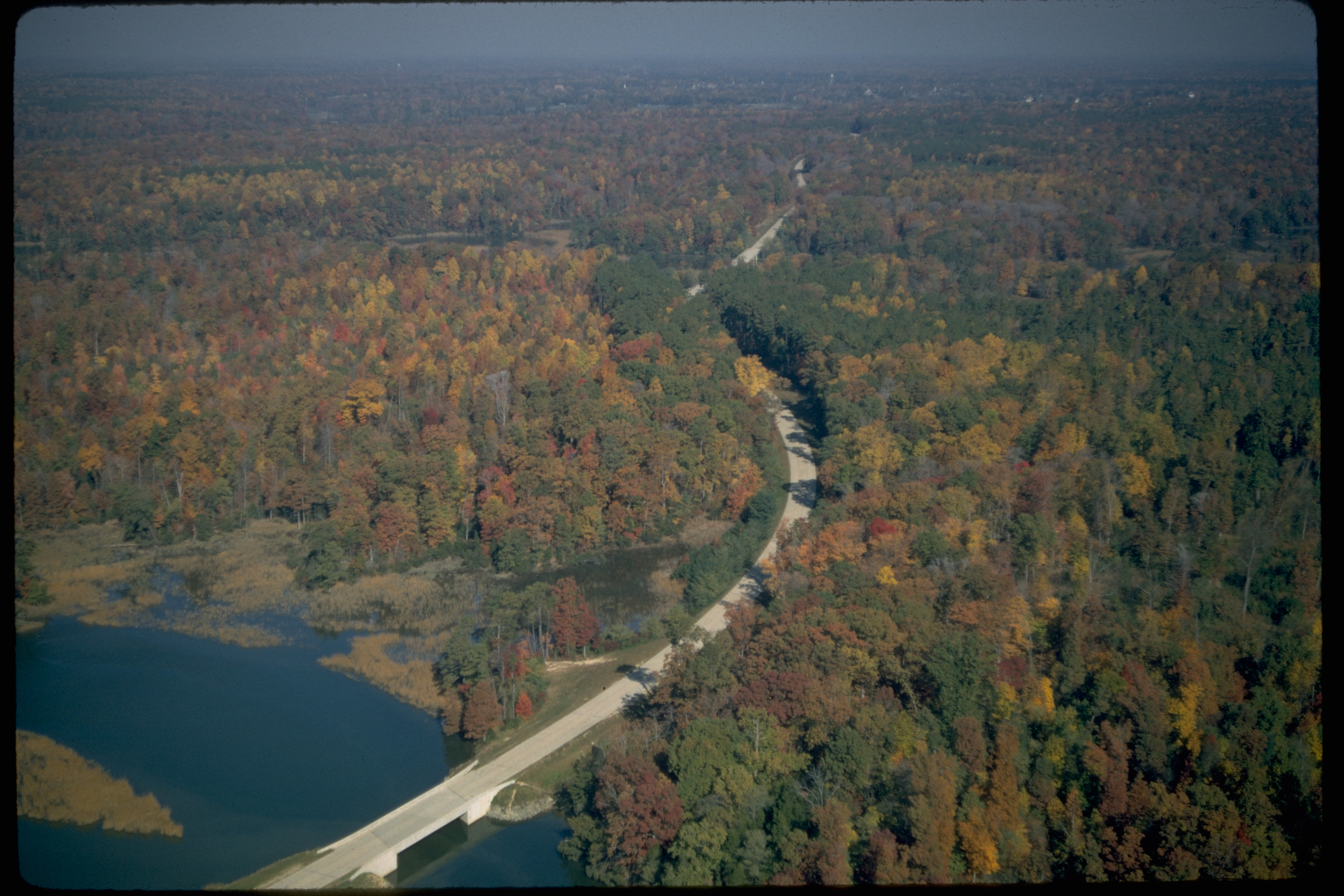 Description Aerial view of the Colonial Parkway — a National Scenic Byway within Colonial National Historical Park, in eastern Virginia. History Virginia Colony began on the swampy marshes of Jamestown in 1607. It ended on the battle scarred landscape of Yorktown in 1781. It was one hundred and seventy-four years of hope, frustration, adventure, discovery, growth, and development that saw a lonely settlement of 104 men and boys grow into a nation of 13 colonies of 3 million people, of many races and many beliefs. Jamestown and Yorktown mark the beginning and end of English Colonial America.